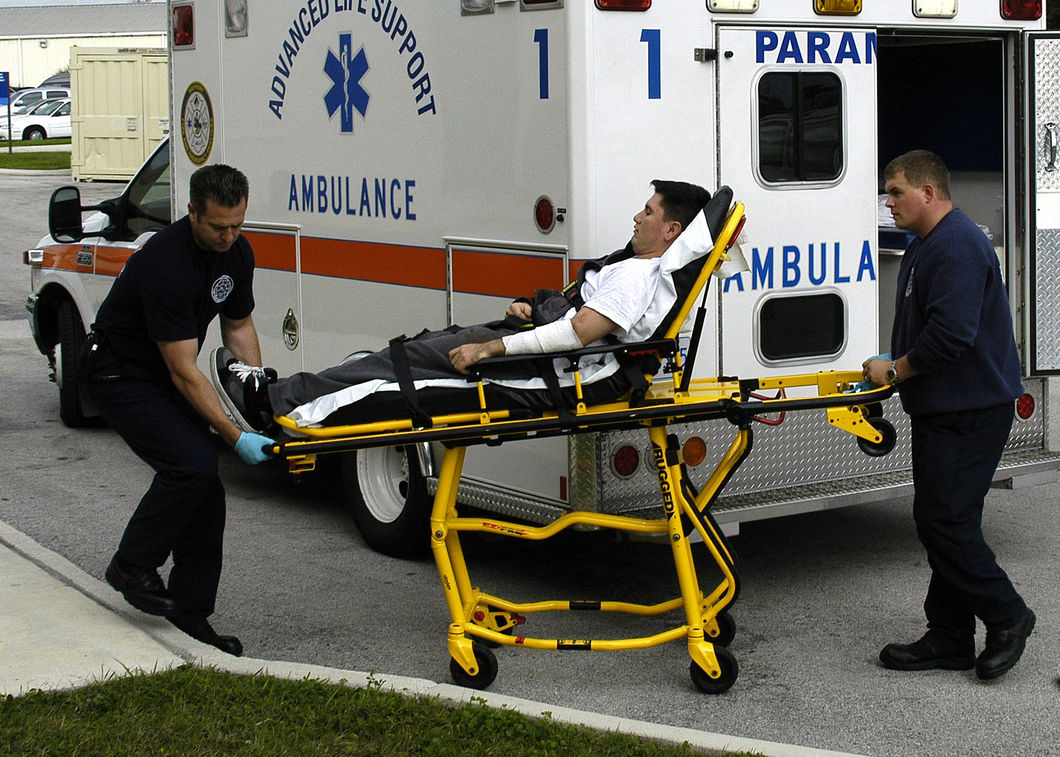 Mayport, Fla. (Jan. 19, 2007) - Firefighter Paramedics William Strickland and Steven Ames assist a simulated burn victim during a mass casualty drill at Naval Branch Health Clinic Mayport. The multi command drill took over five hours and involved ships and tenant commands stationed at Naval Station Mayport. U.S. Navy photo by Mass Communication Specialist Seaman Patrick J. Cook (RELEASED)